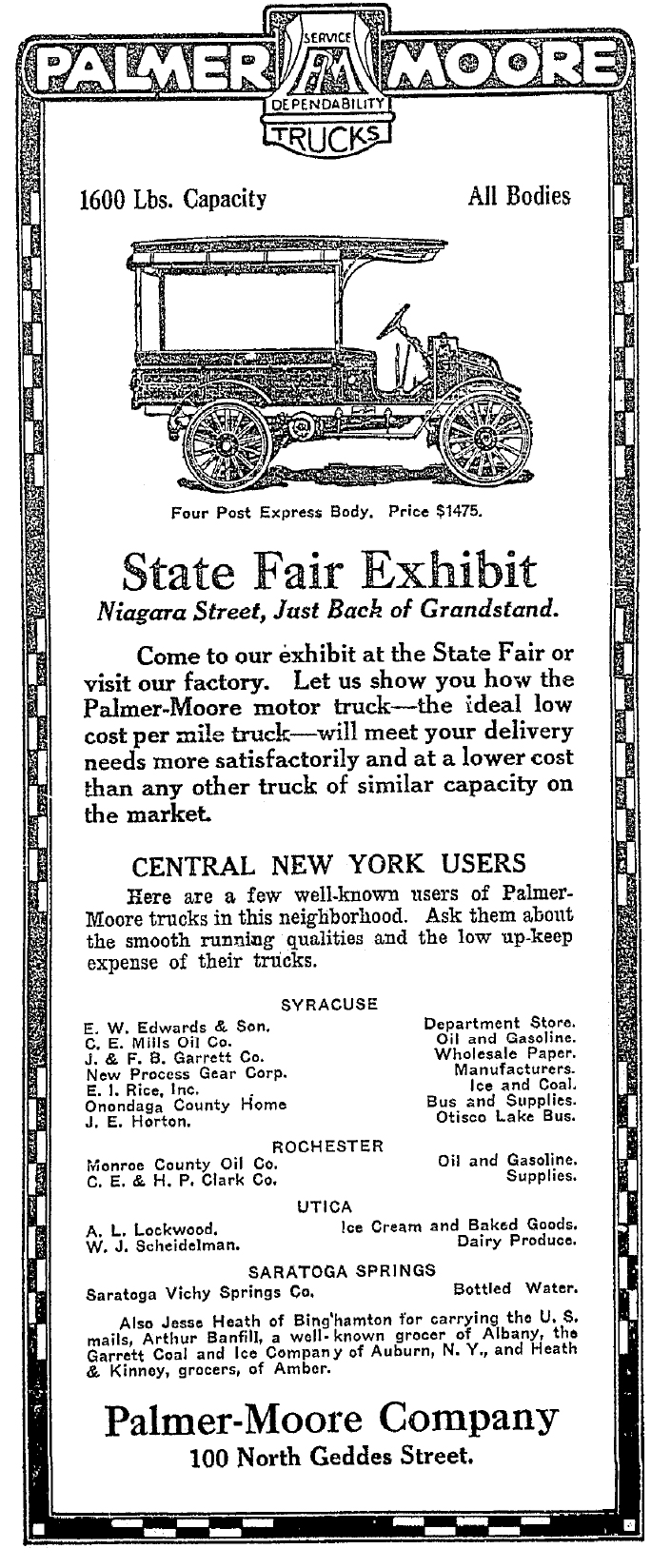 Palmer-Moore Company - State Fair Exhibit